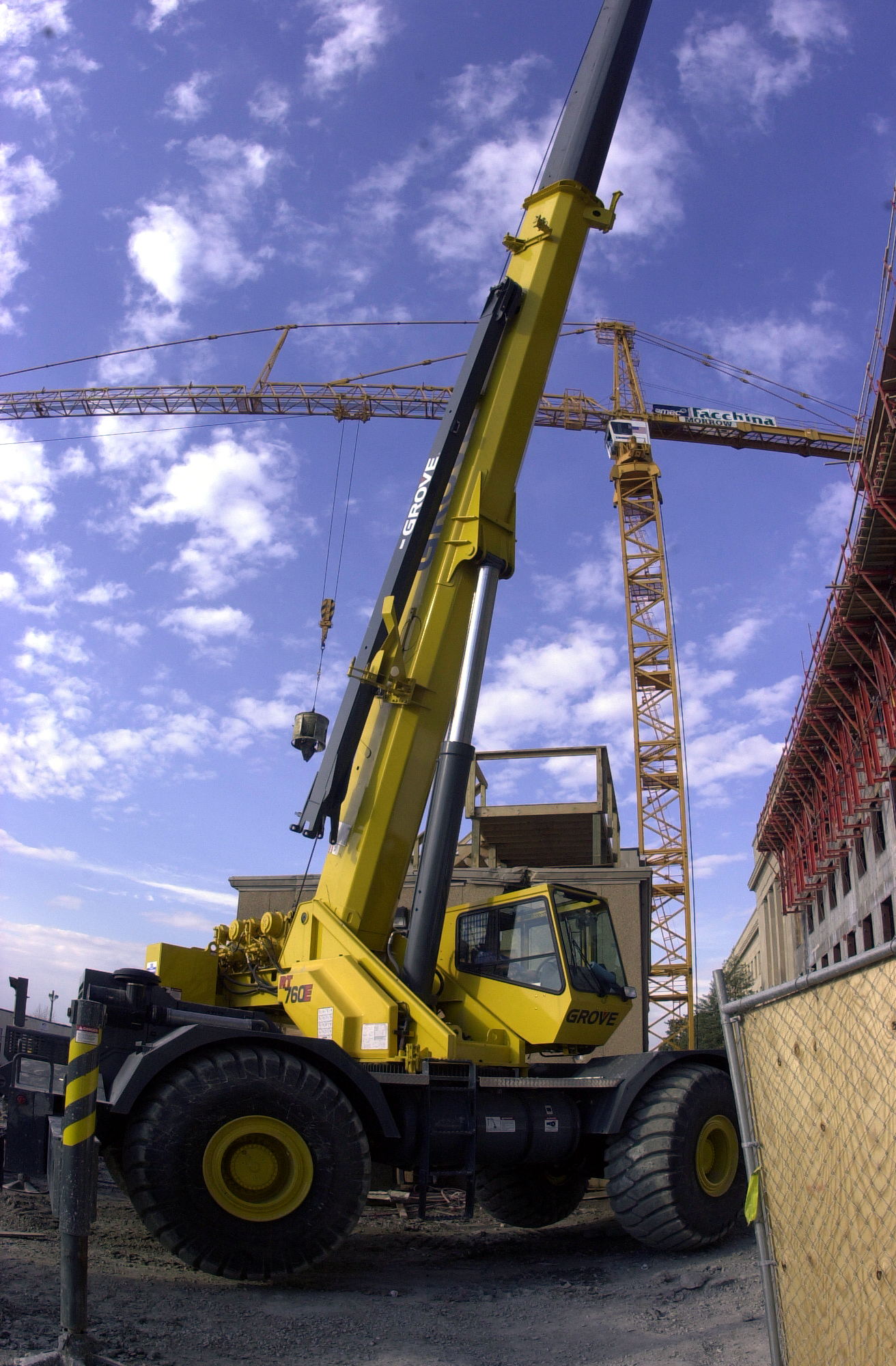 Arlington, VA, March 7, 2002 -- Construction crews continue work outside areas of the Pentagon damaged by a terrorist attack on September 11, 2001. Photo by Jocelyn Augustino/ FEMA News Photo